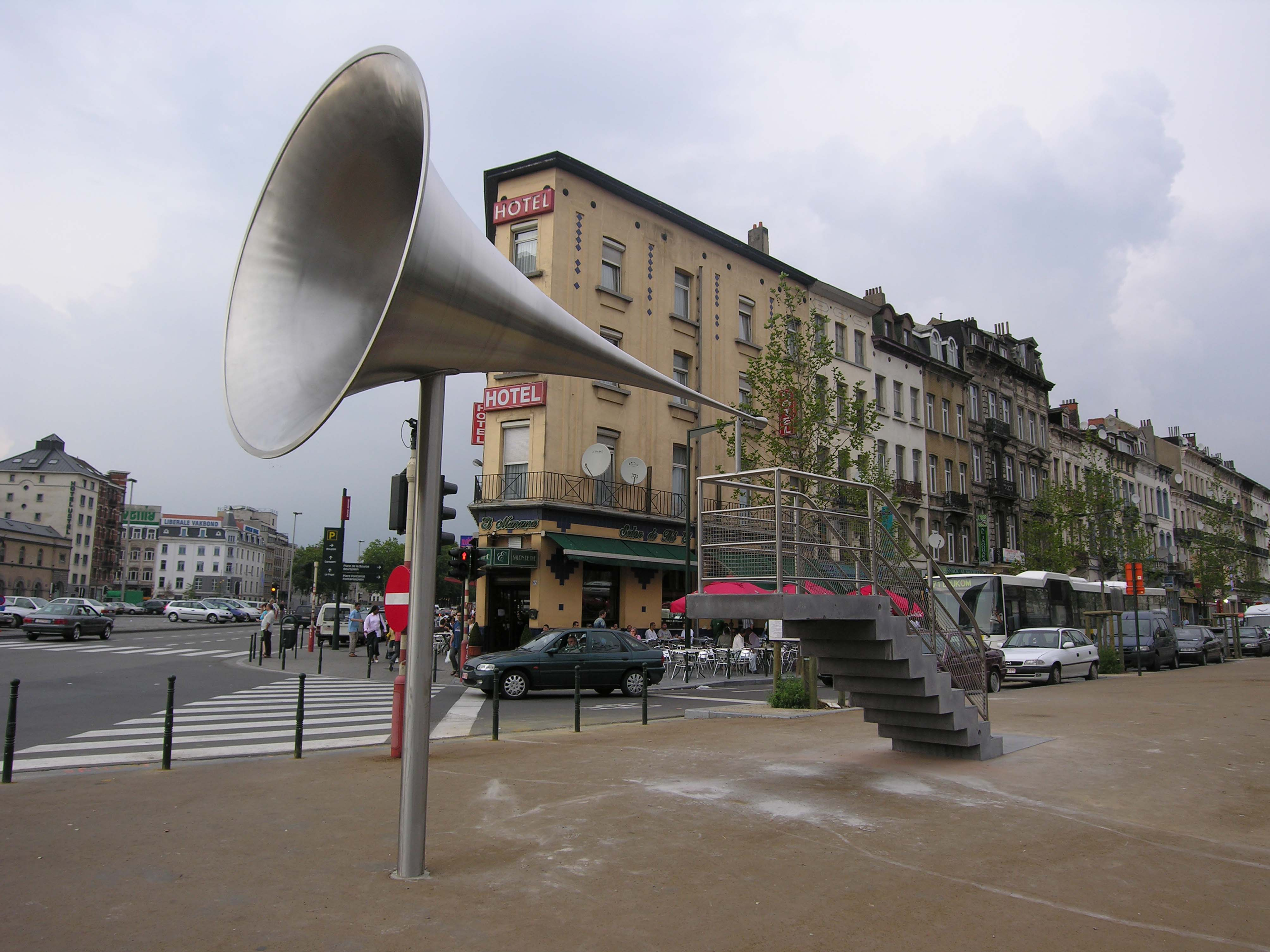 Permanent installation Pasionaria by Emilio López-Menchero at the border of Brussels City and Molenbeek-Saint-Jean, Brussels-Capital Region, Belgium. Photo by Emilio López-Menchero, 2006.